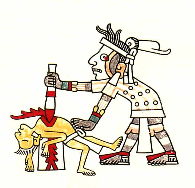 Extract of the folio 8.